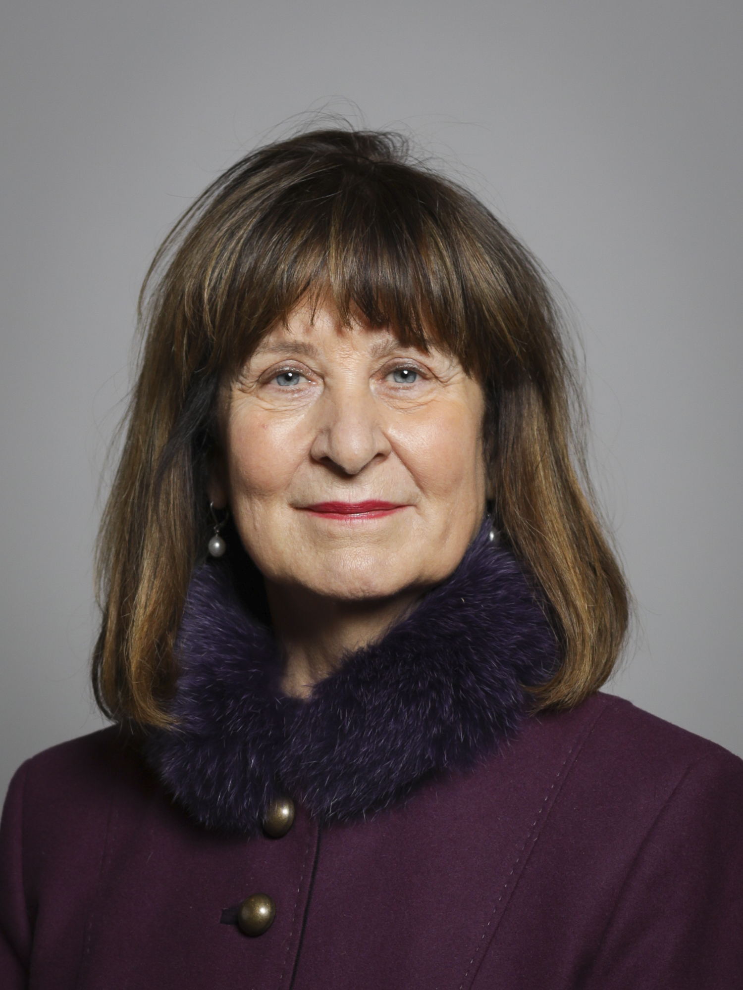 Official portrait of Baroness Kennedy of The Shaws 3×4 portrait of Baroness Kennedy of The Shaws